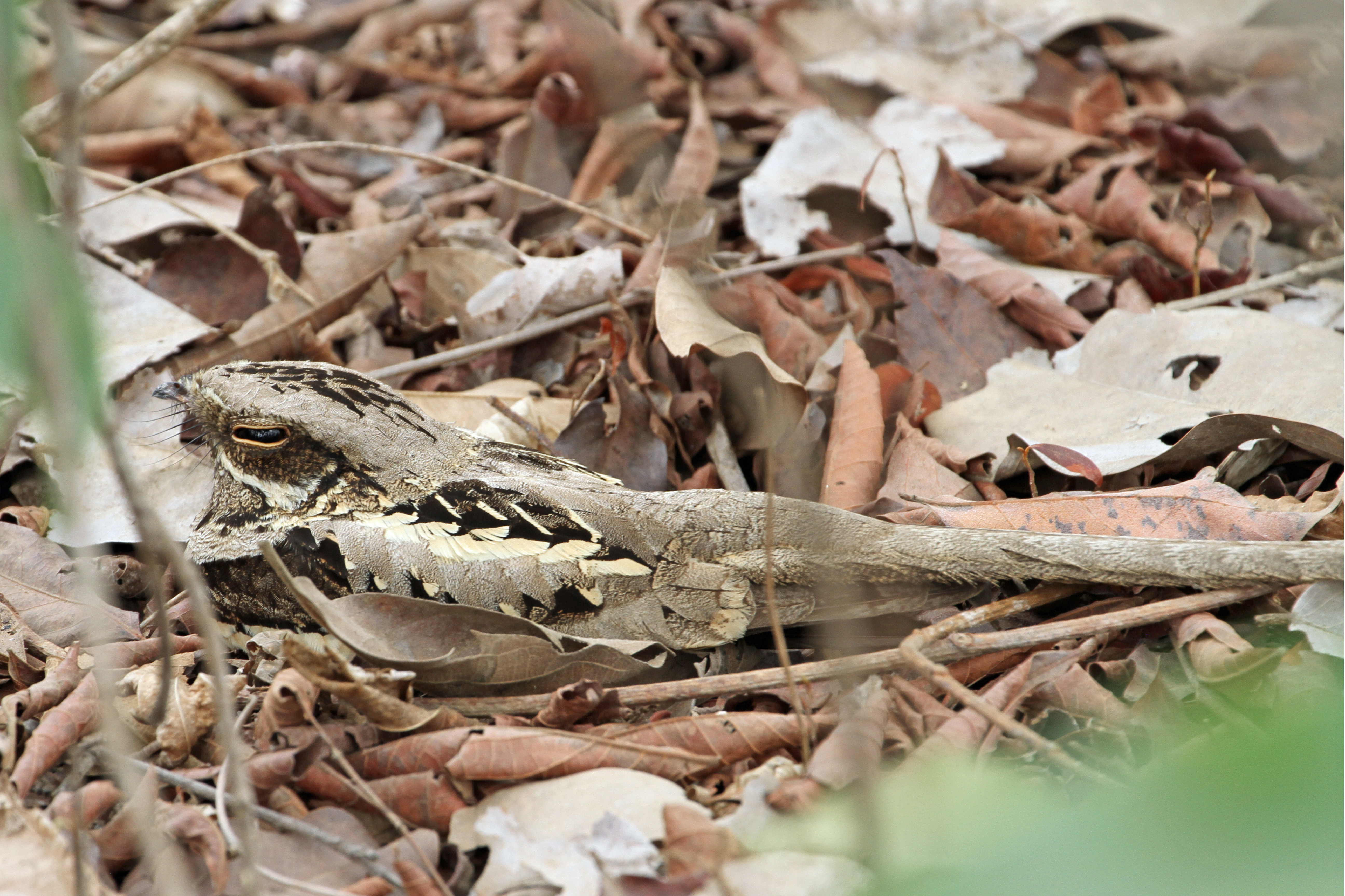 A Long-tailed Nightjar in Gambia. It is on the ground camouflaged amongst leaves.